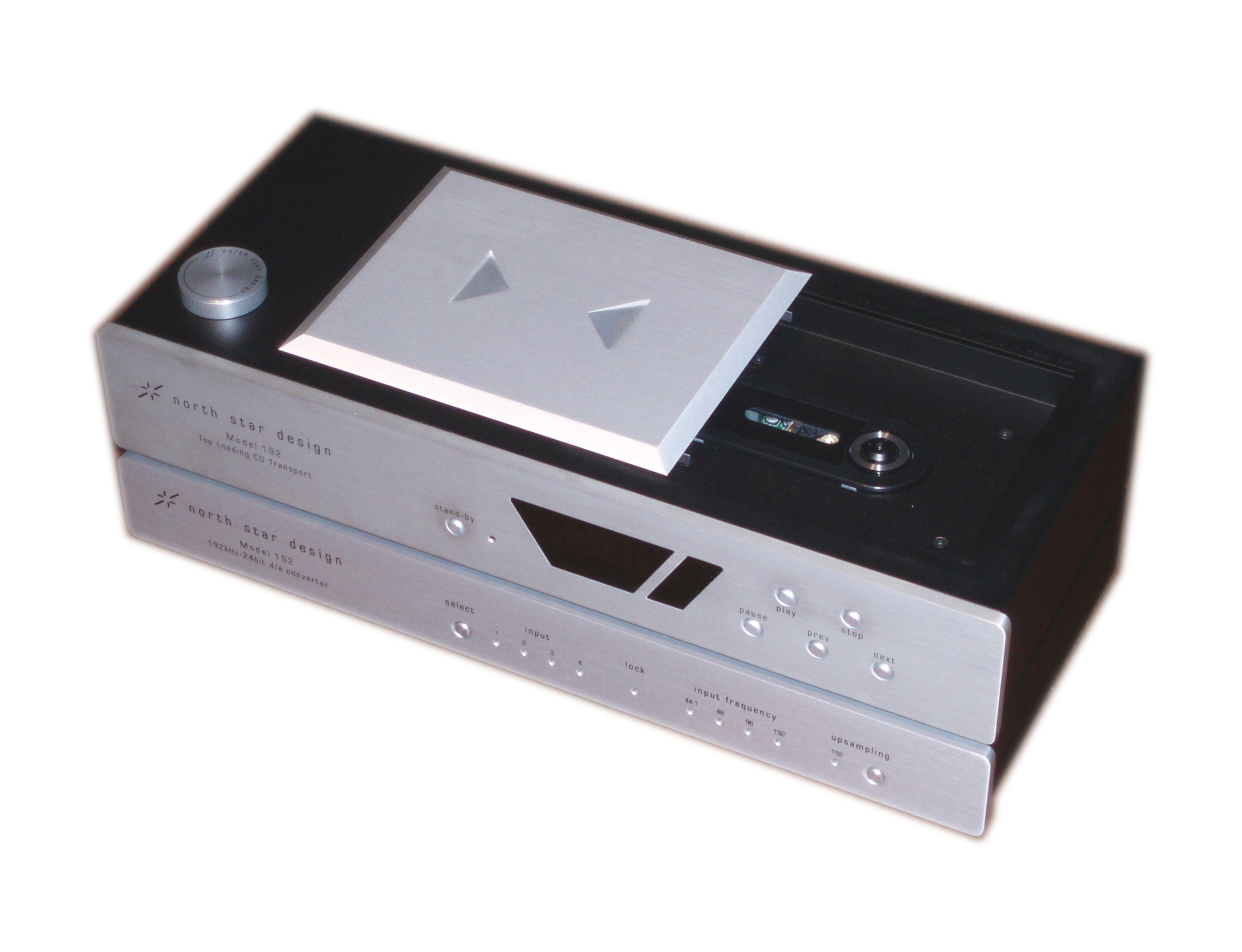 North star design model 192 top-loading CD transport and external DAC.